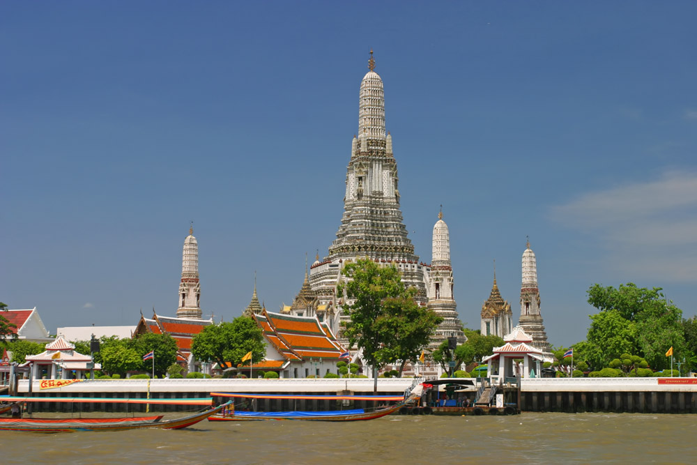 Wat Arun taken from a public ferry on the Chao Phraya River on the 2nd of June, 2004.